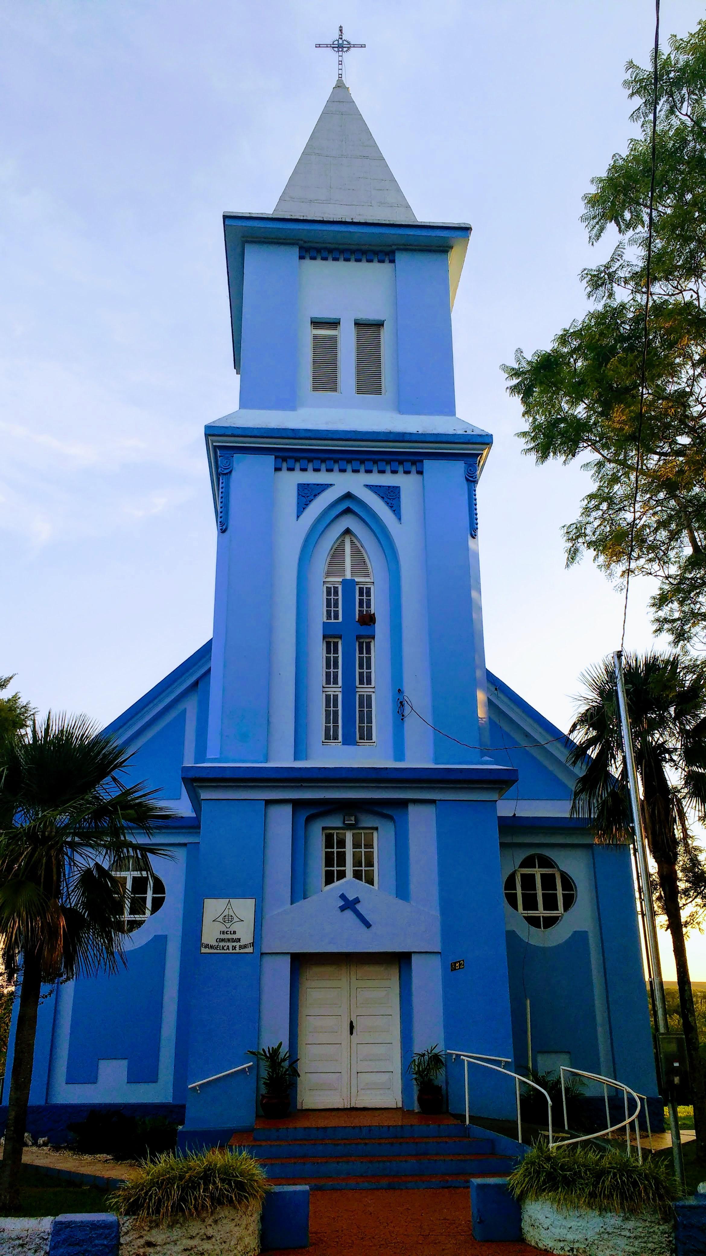 Parish church of Evangelical Community of the Lutheran Confession of Buriti, in Santo Ângelo, Rio Grande do Sul, Brazil.